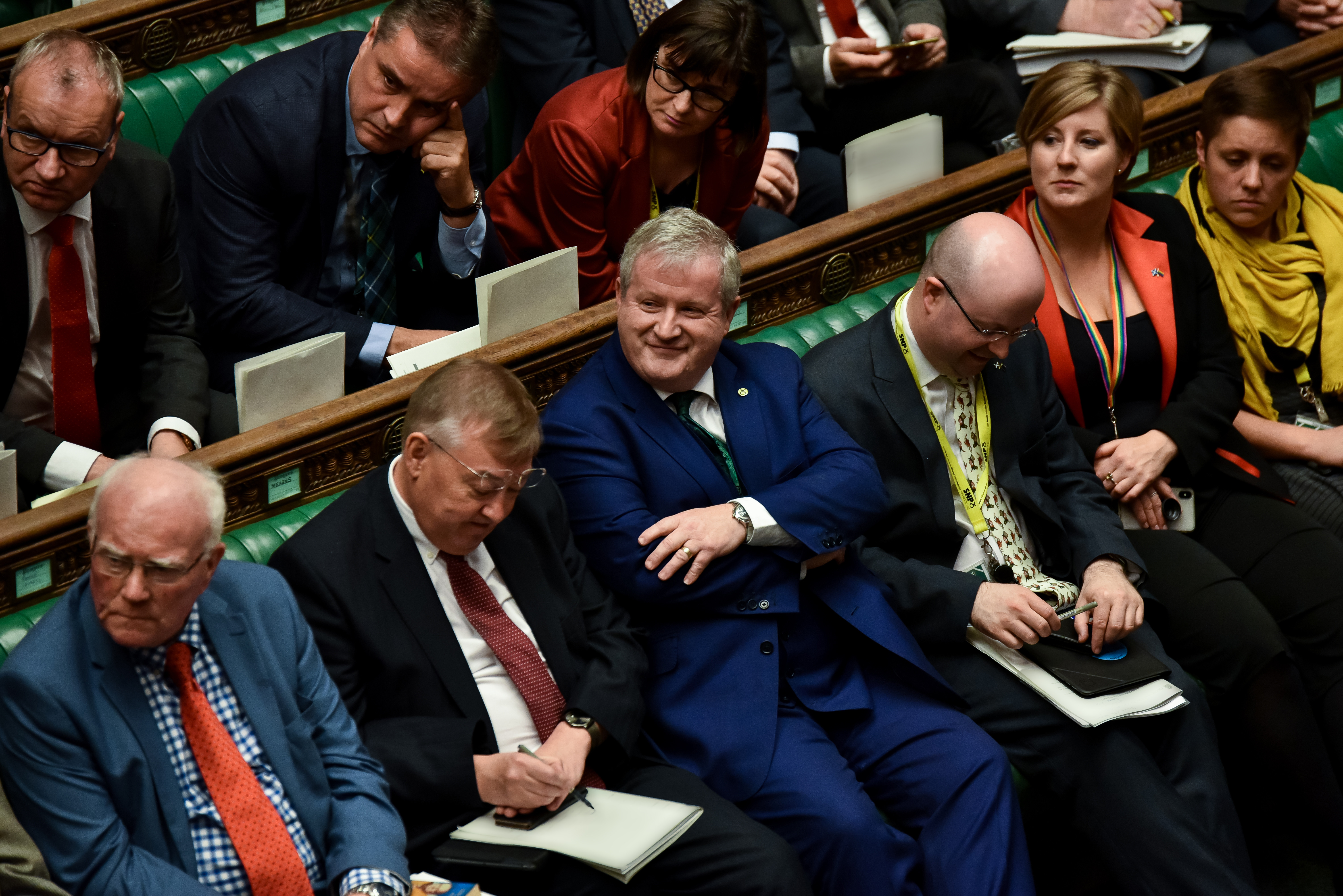 The frontbench of the Scottish National Party in the Chamber of the House of Commons